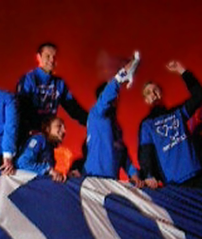 Players of football team Lech Poznań celebrating 1st place in the Lique. Stary Rynek, Poznań, Poland.